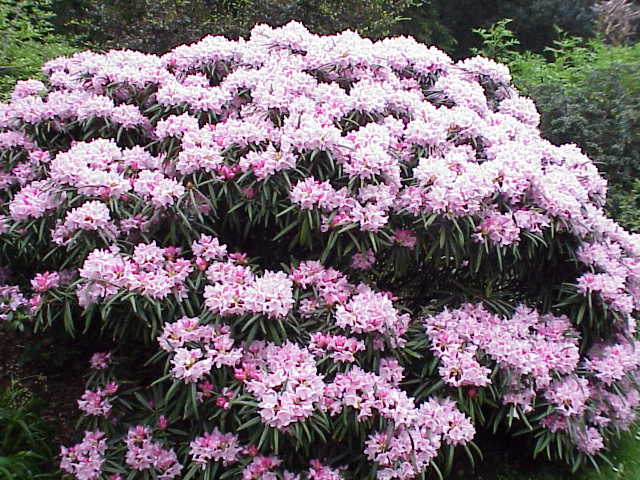 Species: Rhododendron makinoi Family: Ericaceae Image No. 2